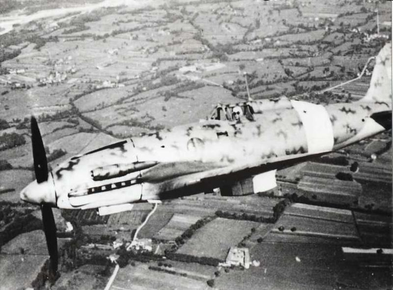 Flight of Macchi M.C.202